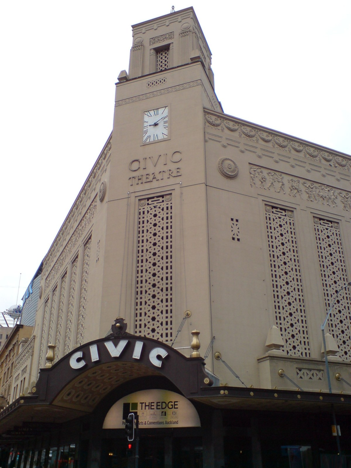 The Auckland Civic Theatre, a rare example of the atmospheric theatre style, in Auckland City, New Zealand, as seen looking westwards towards the main entry. New Zealand Historic Places Trust Register number: 100.